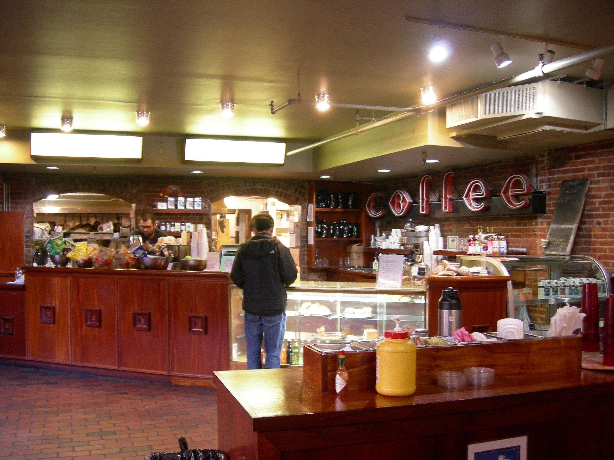 Cafe at Elliott Bay Books, Seattle, Washington.